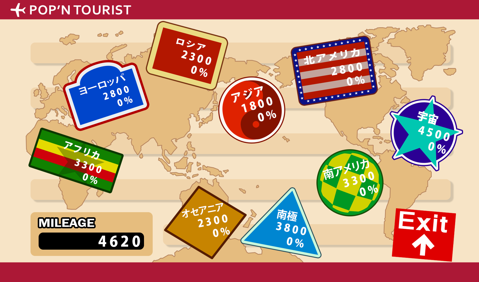 Pop'n Tourist minigame of Pop'n music 11.